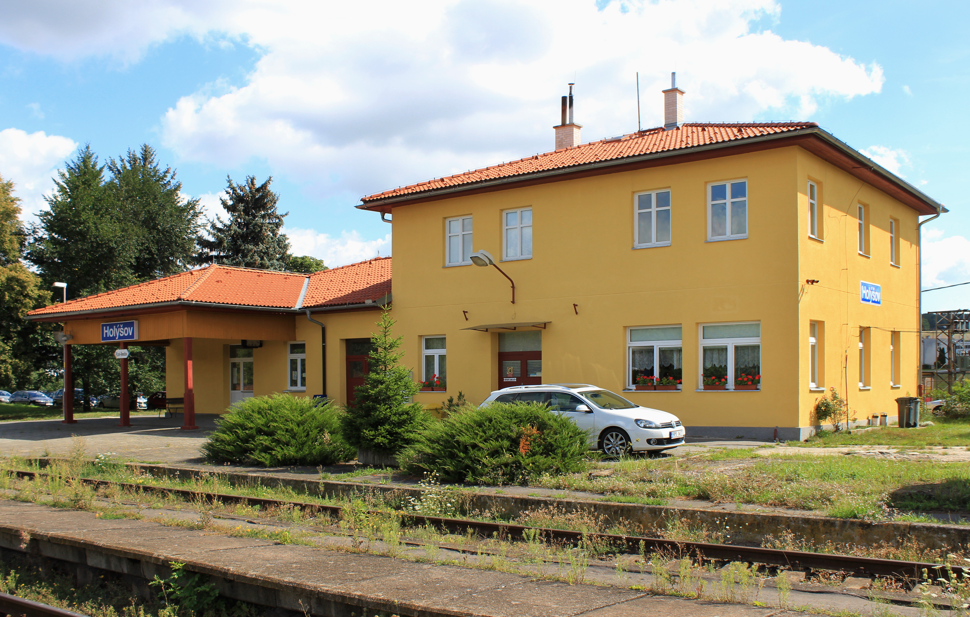 Trains station in Holýšov, Czech Republic.